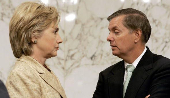 Senators Clinton and Graham